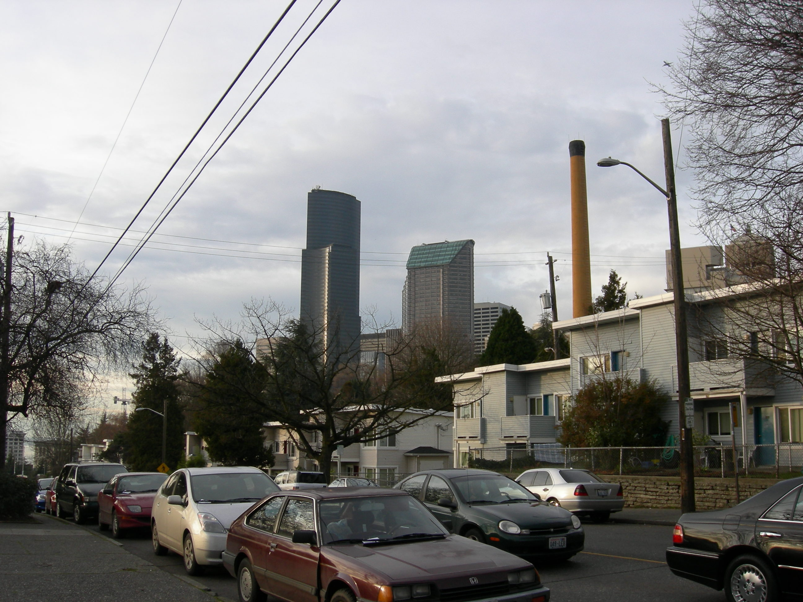 Yesler Way as it passes through Yesler Terrace housing project, Seattle, Washington. Downtown Seattle in background.